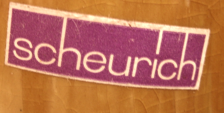 Label with name logo German Aardewerkfabriek Scheurich (years 1970-1980's)